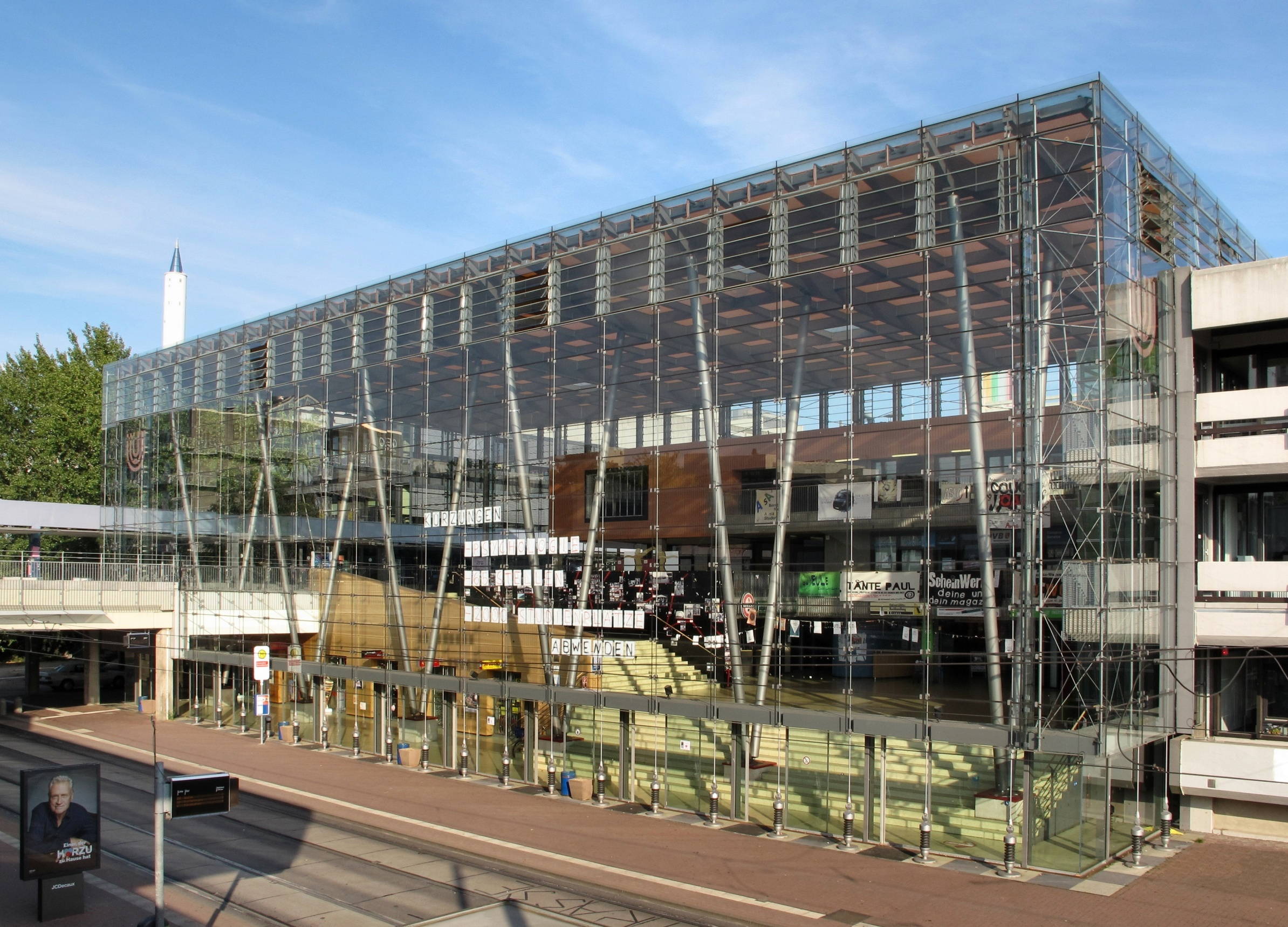 University of Bremen, Entrance Hall